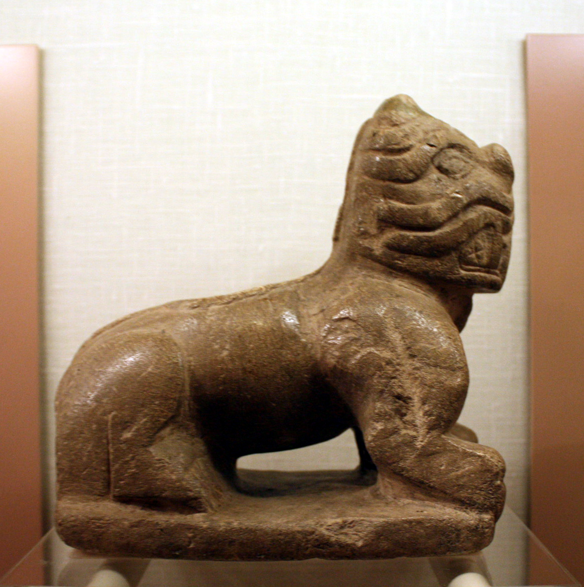 Cropped version, of "Feline statuette excavated at the Moundville Archaeological Park in Moundville, Hale County, Alabama, United States. Housed onsite in the Jones Archaeological Museum. Possibly representing a Florida panther, or Puma concolor, that was common in Alabama before European contact."